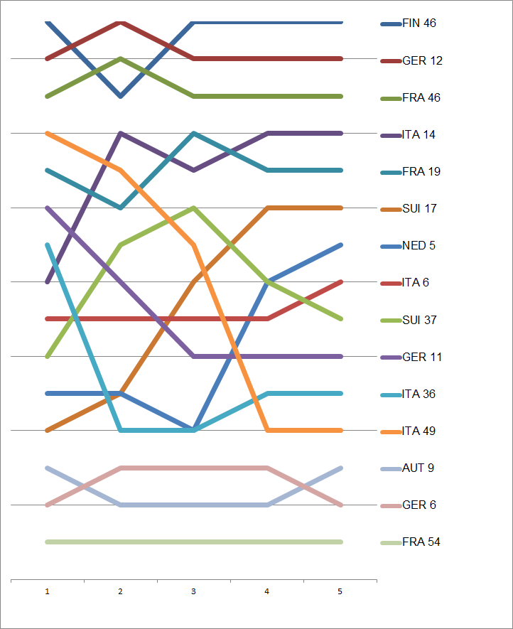 5.5 Metre positions during the 2012 Vintage Yachting Games